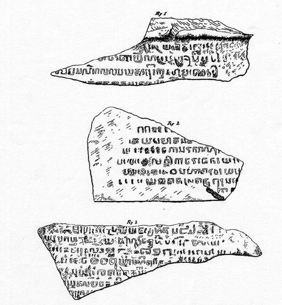 A drawing of three fragments from a sandstone block that once stood at the Singapore River mouth. The bottom fragment is known as the Singapore Stone.